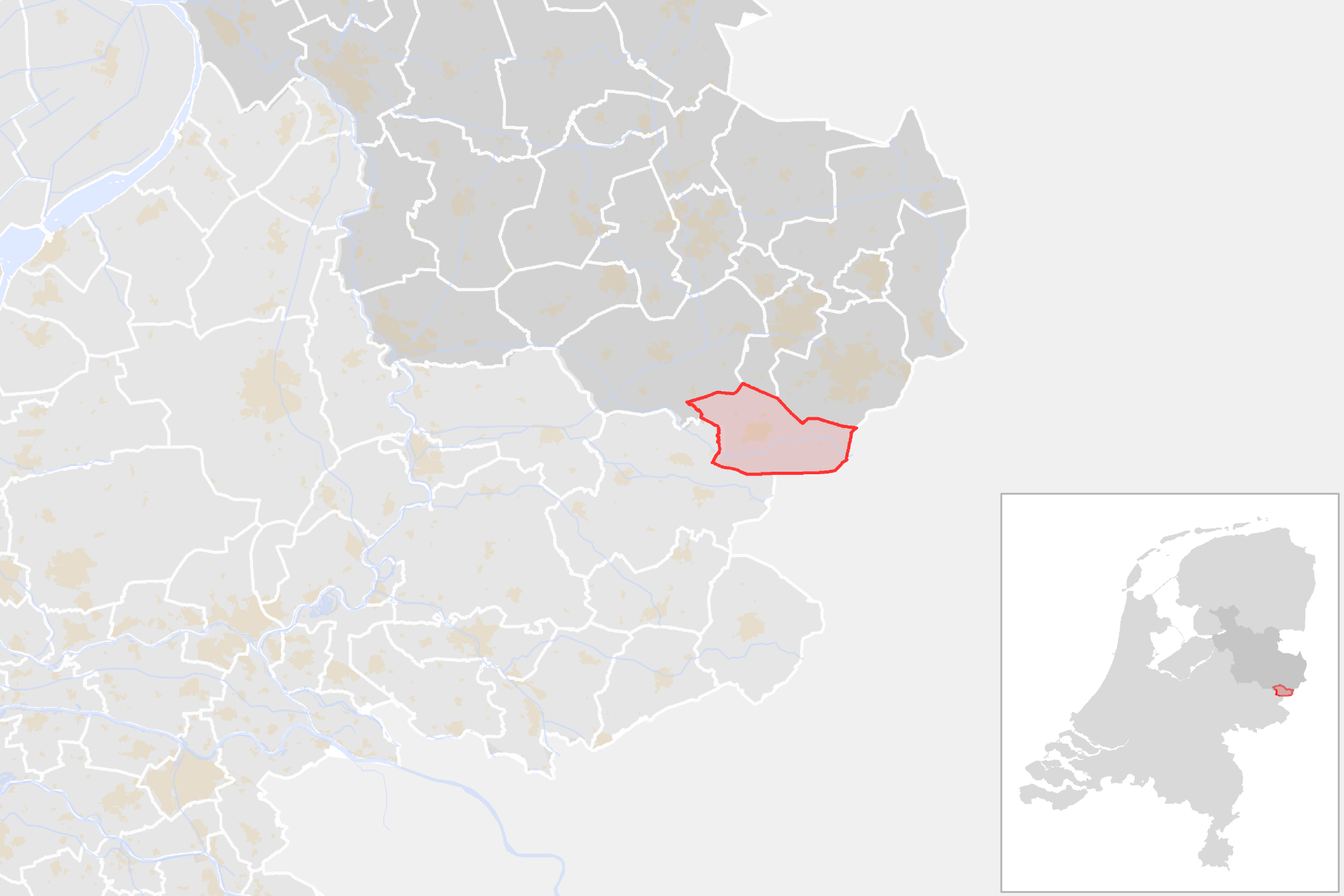 Locator map showing municipality boundary of one of the 390 Dutch municipalities (as of 2016)